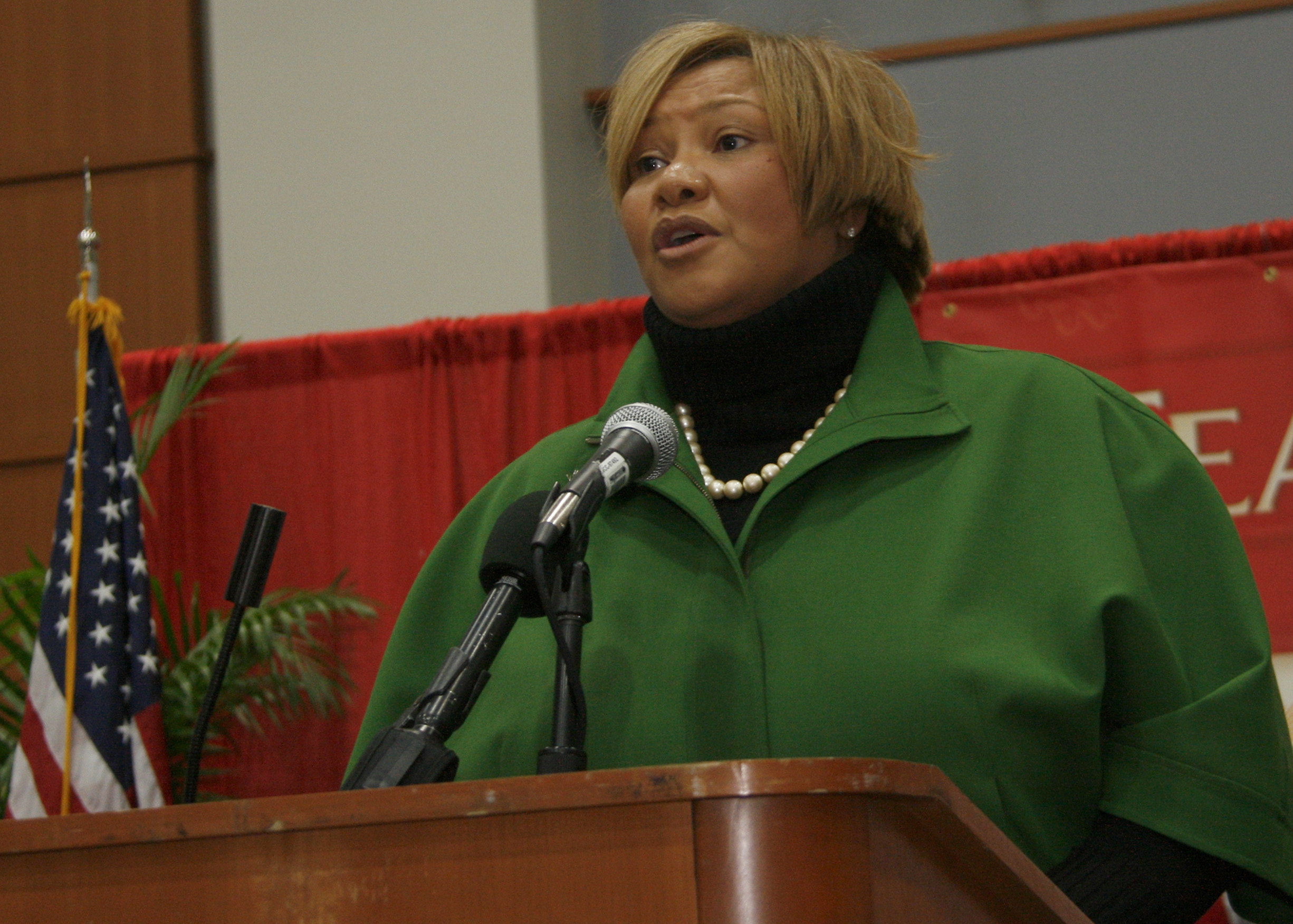 Yvette Alexander, DC City Councilwoman at the Safeway "Feast of Sharing" 2009